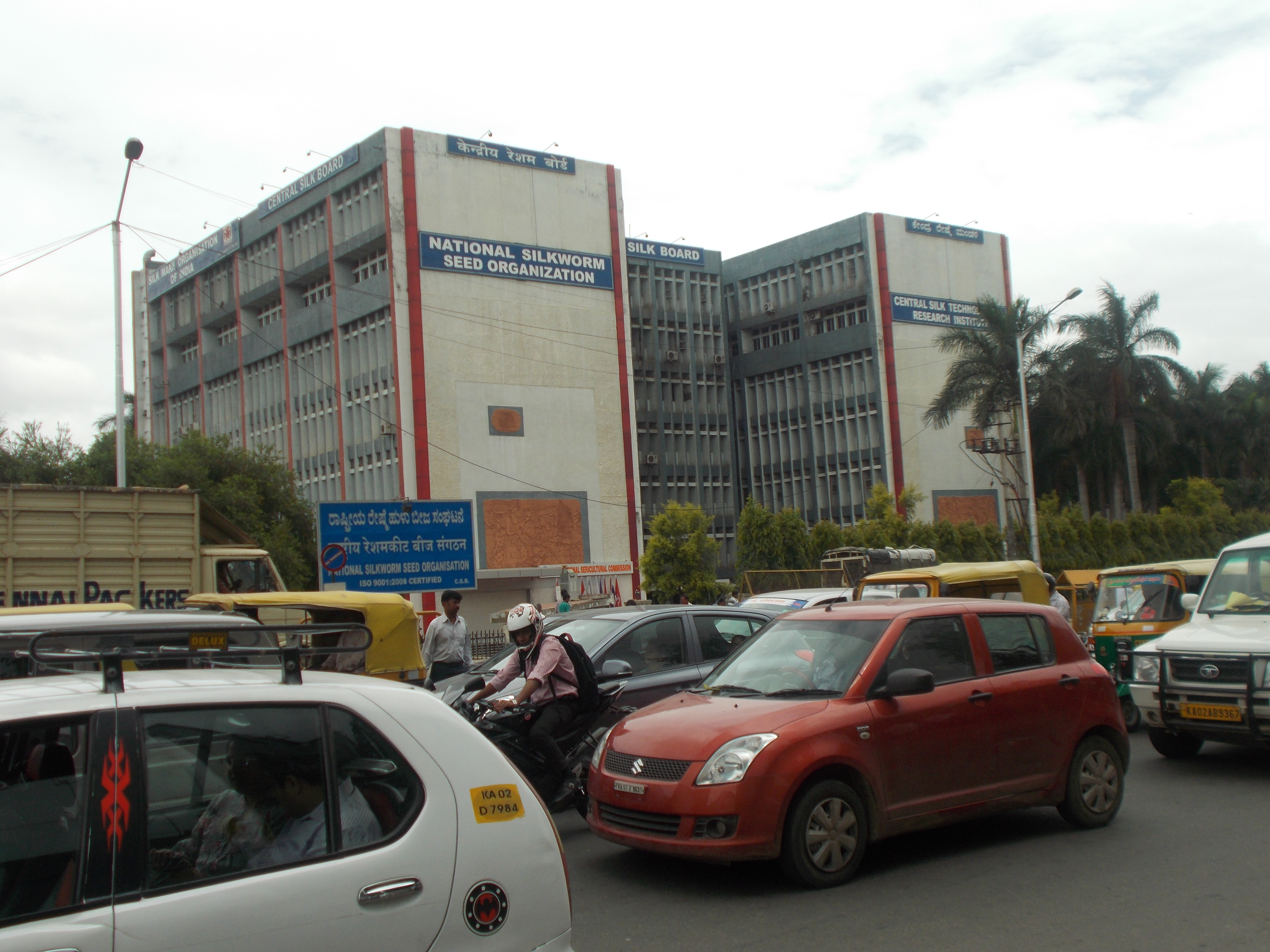 Central Silk Board, a landmark by itself, Bangalore.